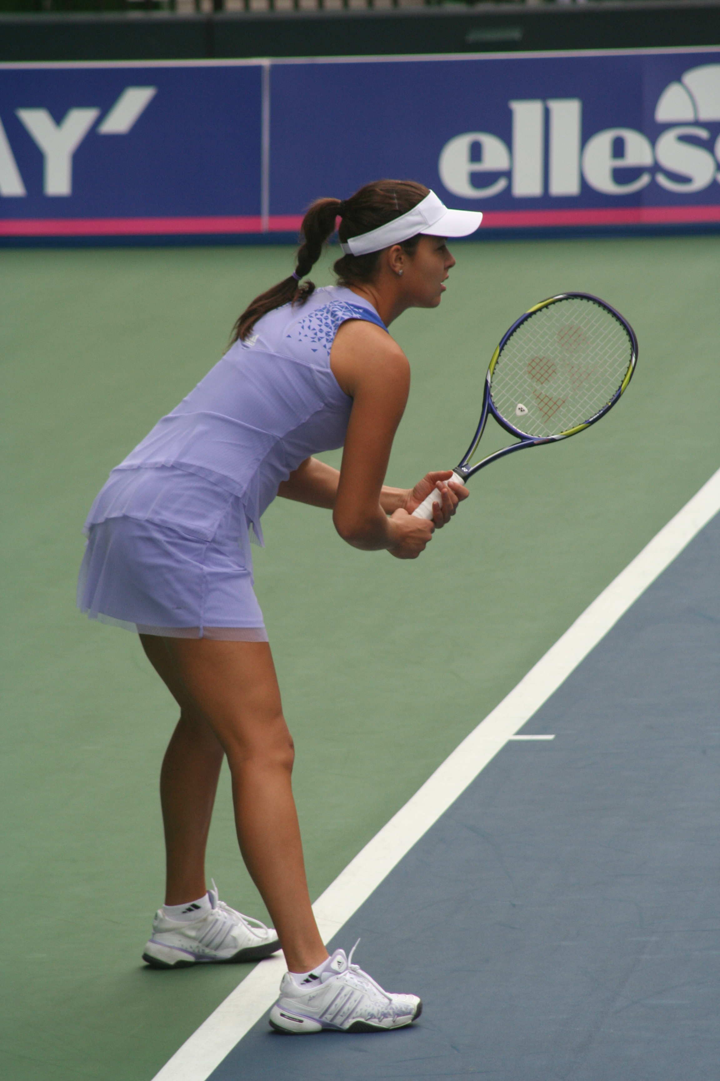 Serbian Tennis player Ana Ivanovic on the opening day of the Toray Pan Pacific Open 2009 in Tokyo.